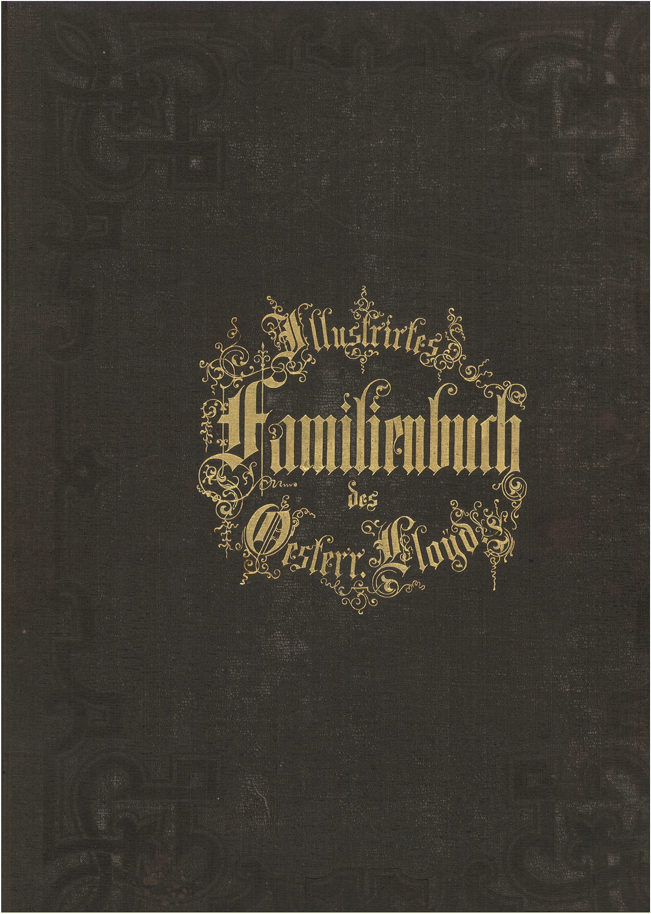 Book cover of the Familienbuch, Lloyd Triest 1859